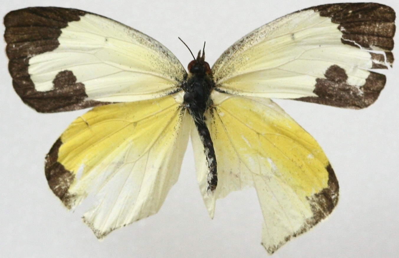 Male Mexican Yellow, Eurema mexicana.